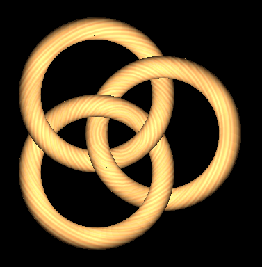 Top view of three-dimensional shapes linked in the Borromean rings configuration which are intended to look like perfect circles when viewed from the top, but which are actually not perfect circles (see other image).